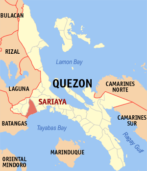 Map of Quezon showing the location of Sariaya